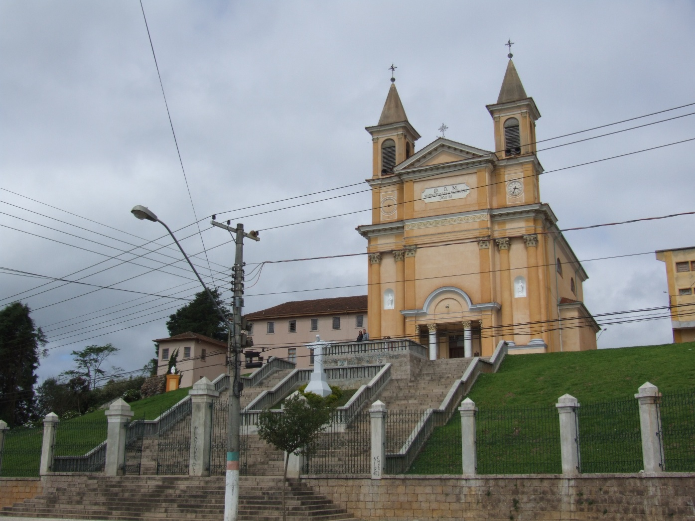 Our Lady of Rosário Church, municipality of Colombo, state of Paraná, Brazil